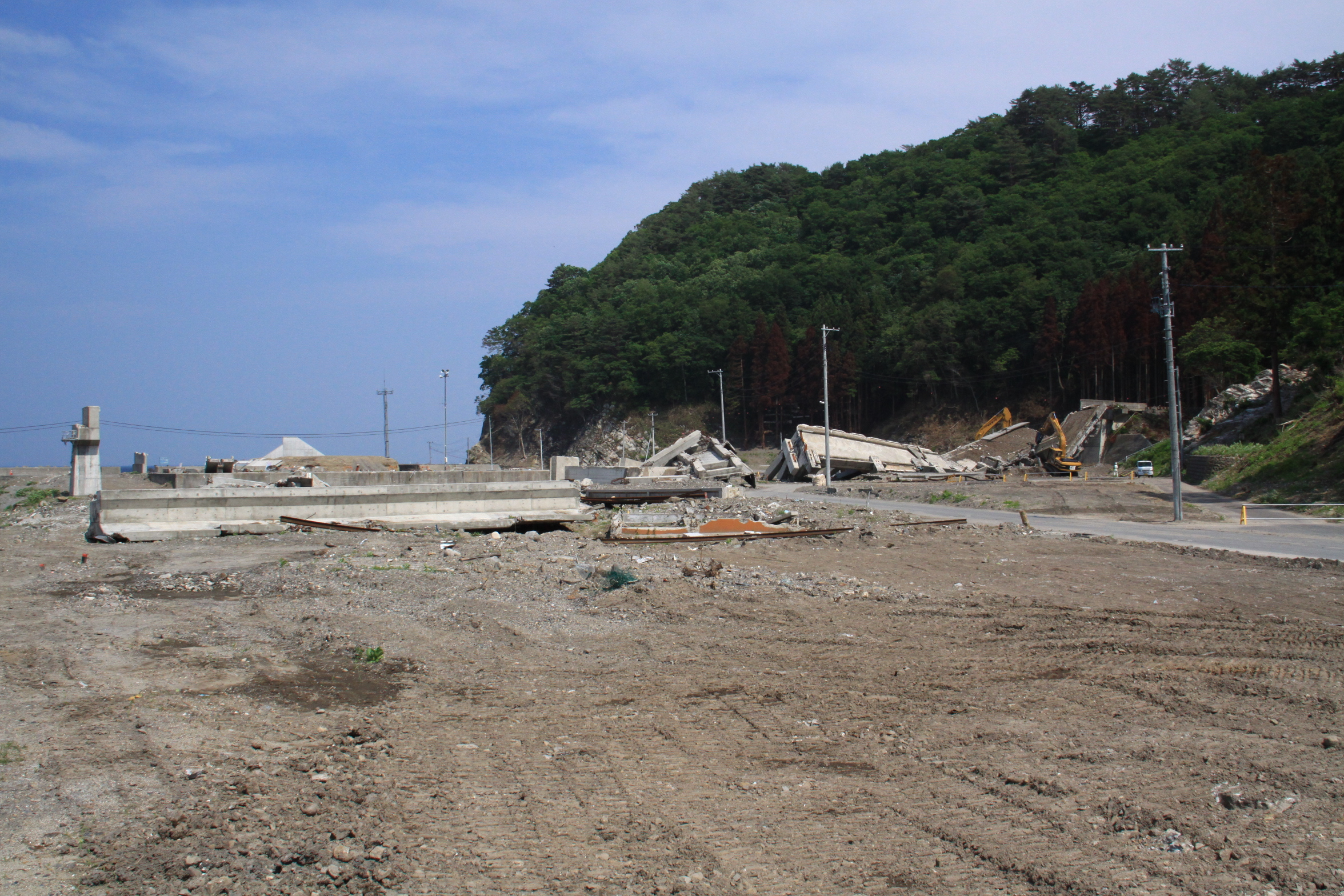 Shimanokoshi Station of Sanriku Railway is vanished by Tsunami in Tanohata, Iwate. Bridge is overcome by Tsunami of height that exceeds bridge and has dropped.